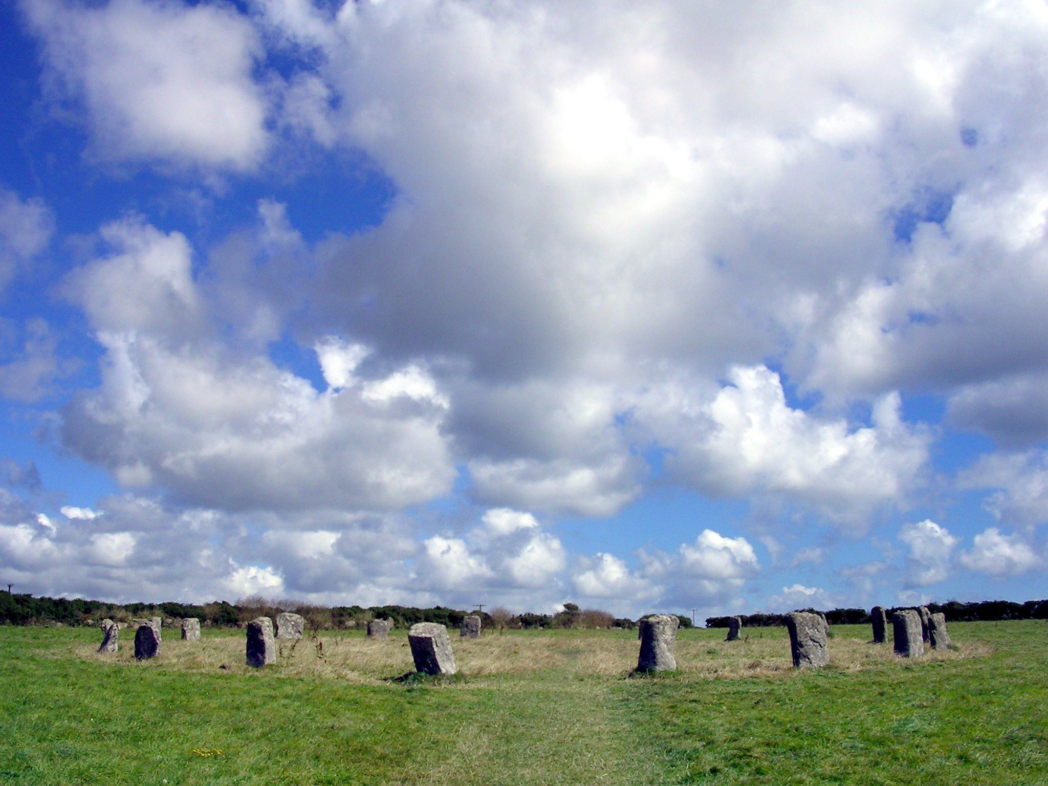 The Merry Maidens stone circle in West Penwith, Cornwall. Contrast selectively improved using filters in Gimp 2.0